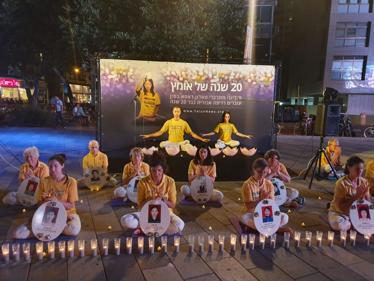 20 years of persecution, gathering at the Sinematheque, Israel